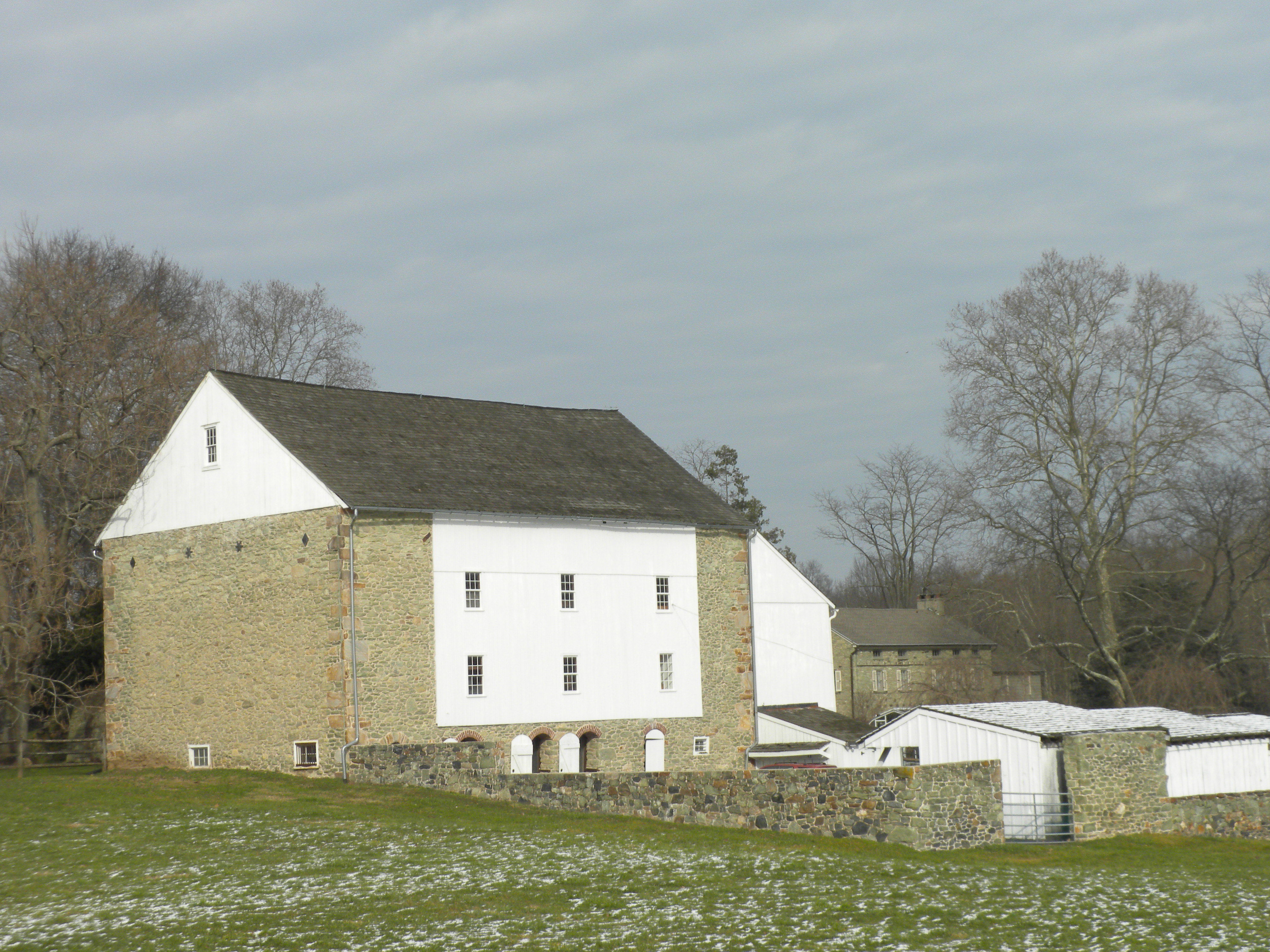 Daniel Davis Barn and House in Birmingham Township, Chester County, PA on NRHP. This photo is my own work and I donate it to the public domain.